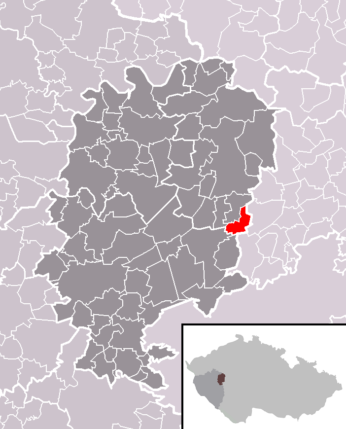 Location of Kařízek municipality within Rokycany District and within identical administrative area of Rokycany as a Municipality with Extended Competence.